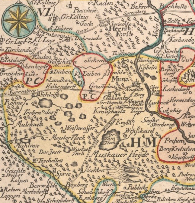 Crop from the map Image:Priebussischer Creis nebst Herrschaft Muska.png.